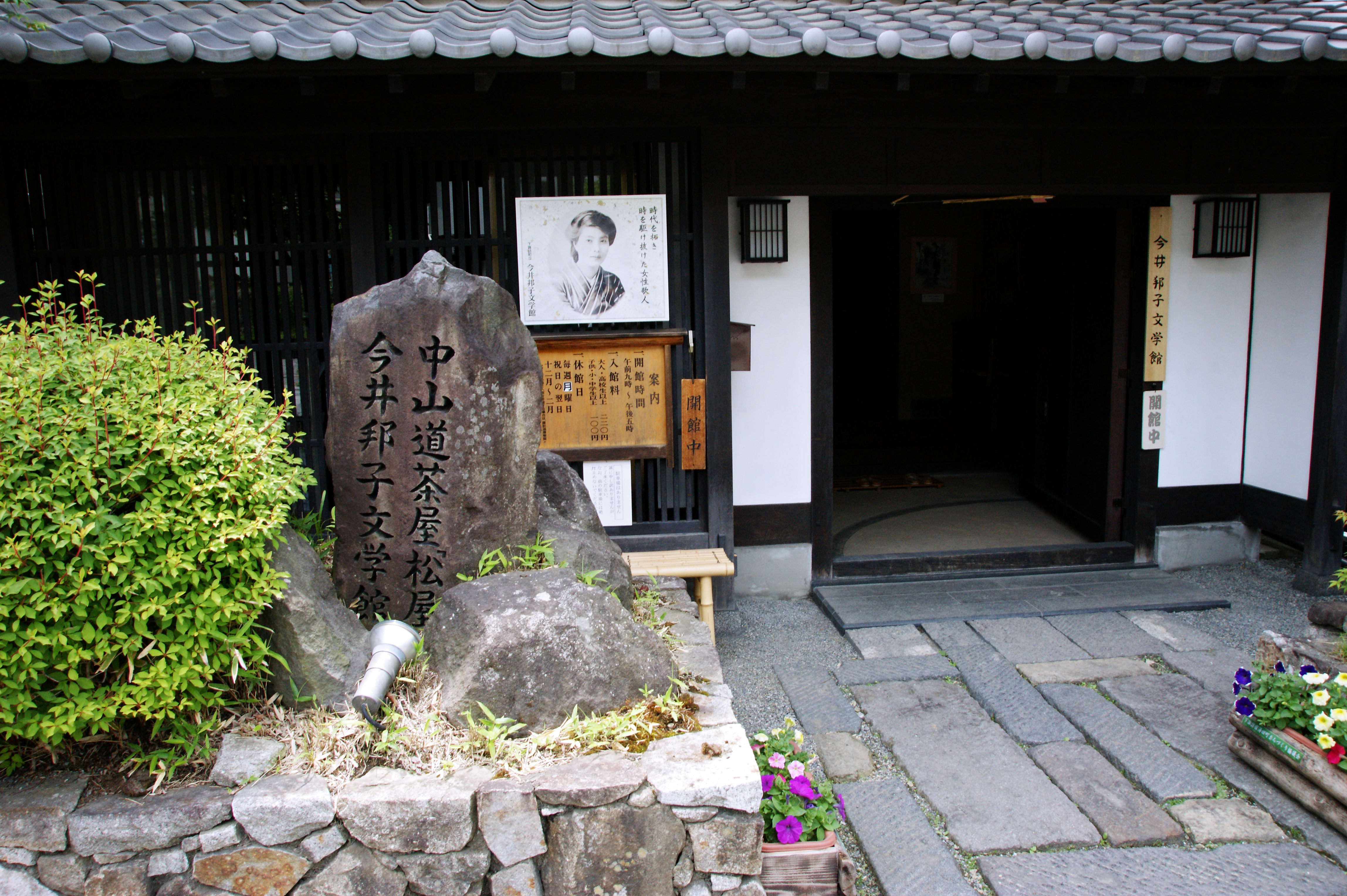 Kuniko Imai Literary Museum in Shimosuwa, Nagano prefecture, Japan.